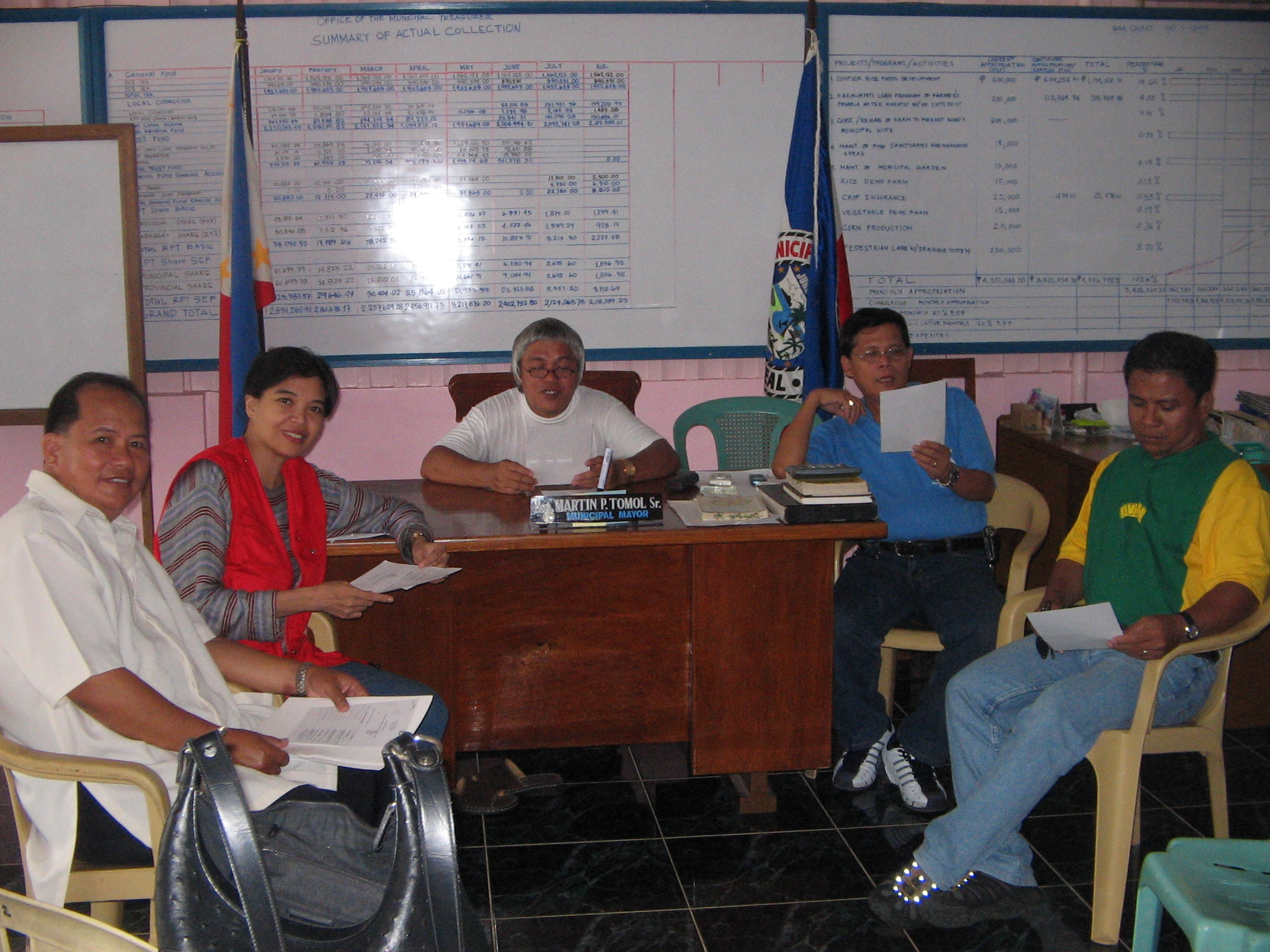 mayor Boy Tomol with NDRRMC